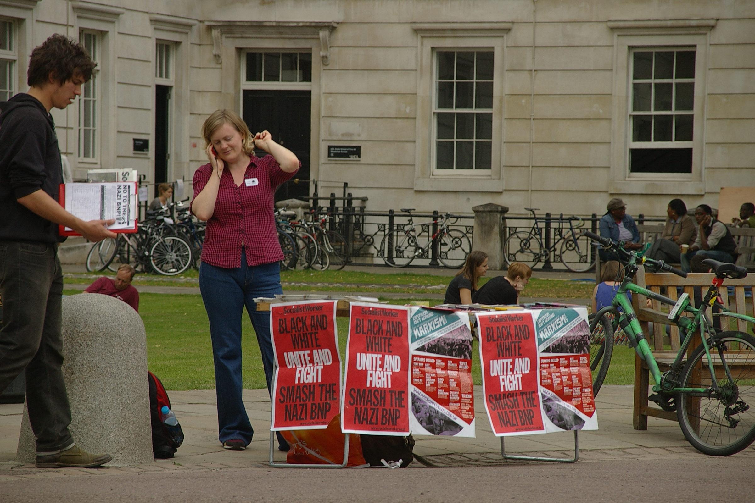 Socialist Workers Party representatives handing out anti-BNP leaflets in the quad at University College London.